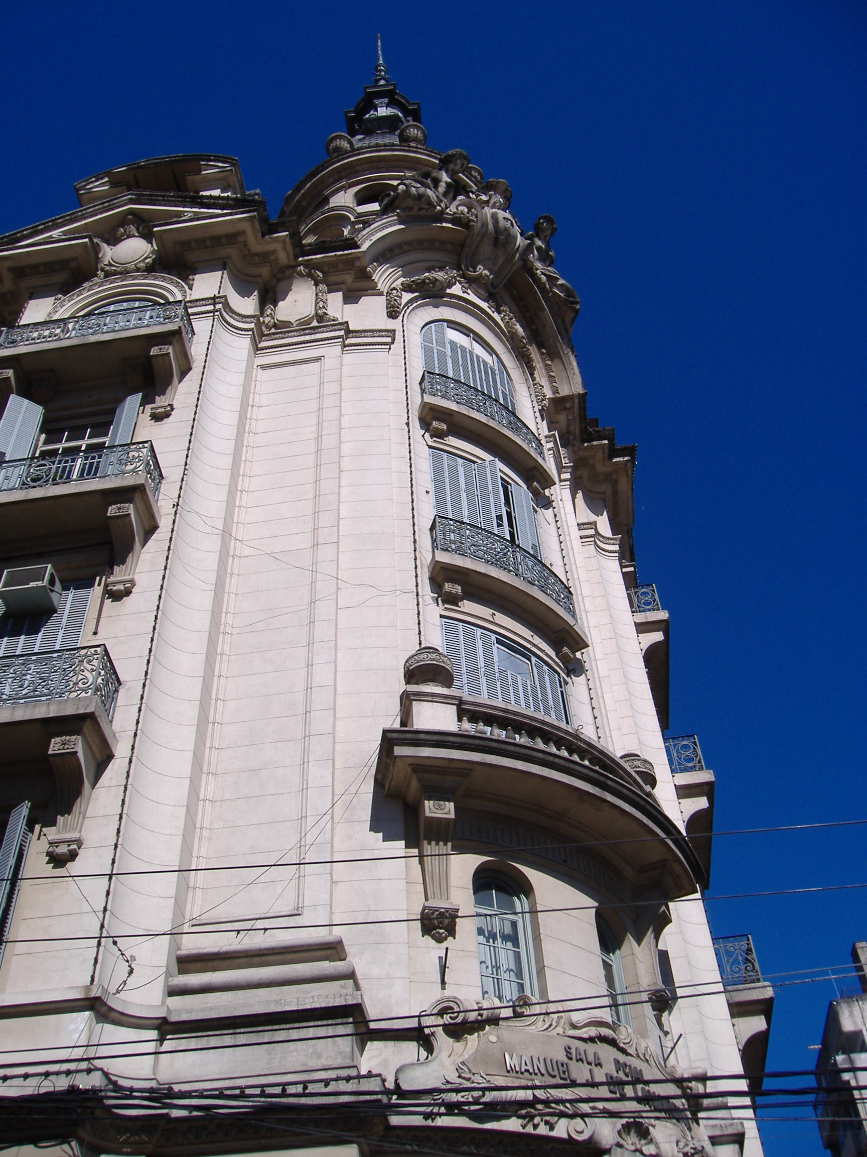 Sala Lavardén Theater (formally Centro Cultural Provincial Manuel José de Lavardén), in Rosario, Argentina. Completed in 1927 as the headquarters of the Argentine Agrarian Federation, the Beaux-Arts building was sold to the Santa Fe Province General Cultural Directorate in 1965. The current institution was inaugurated as such in 2001. [1]